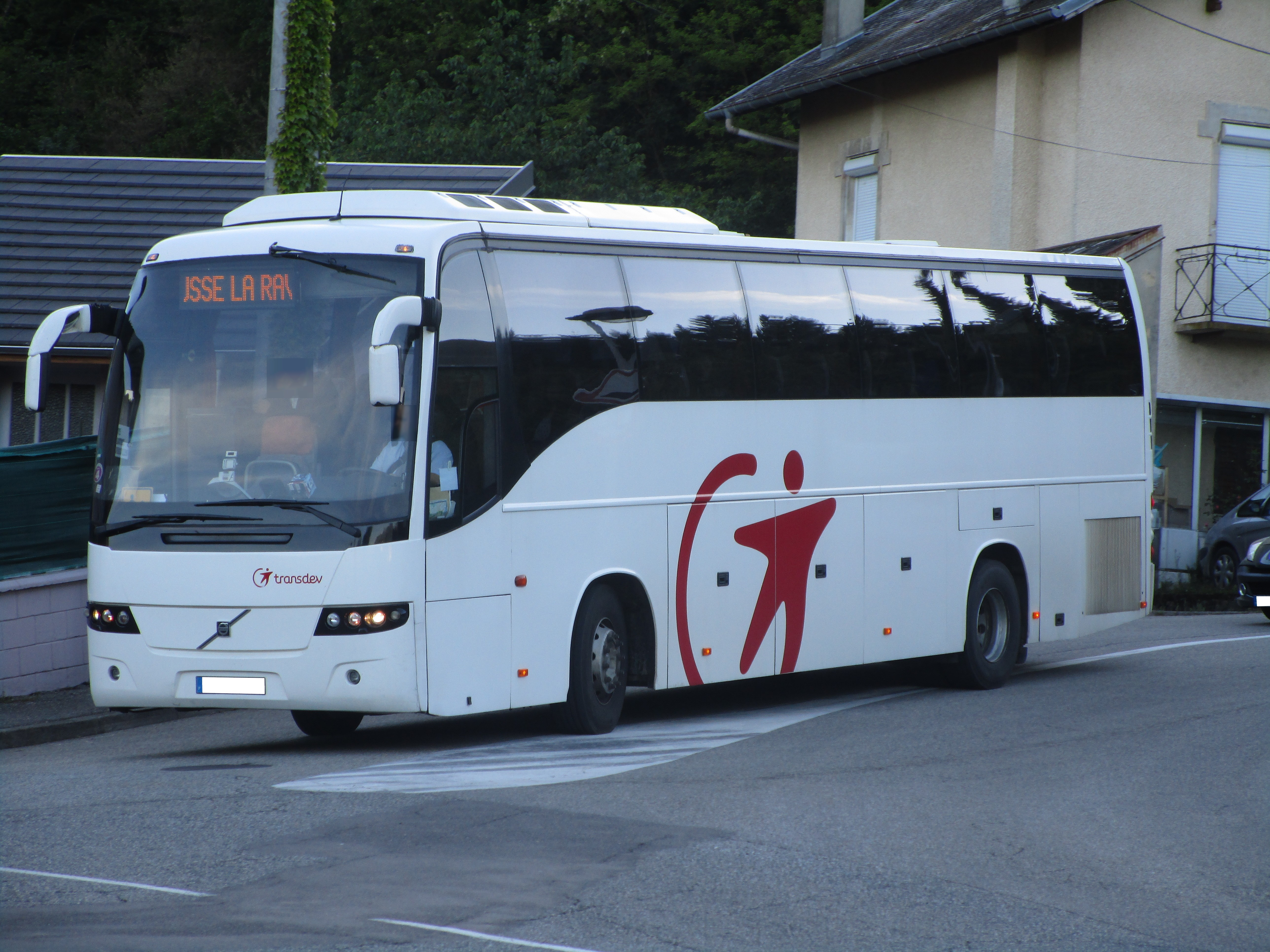 A Volvo 9700 of Transdev Rhône-Alpes Interurbain, on the line 13 of the Stac (La Guillère, La Thuile↔Parc relais La Trousse, La Ravoire), in Saint-Alban-Leysse on May 16, 2017.